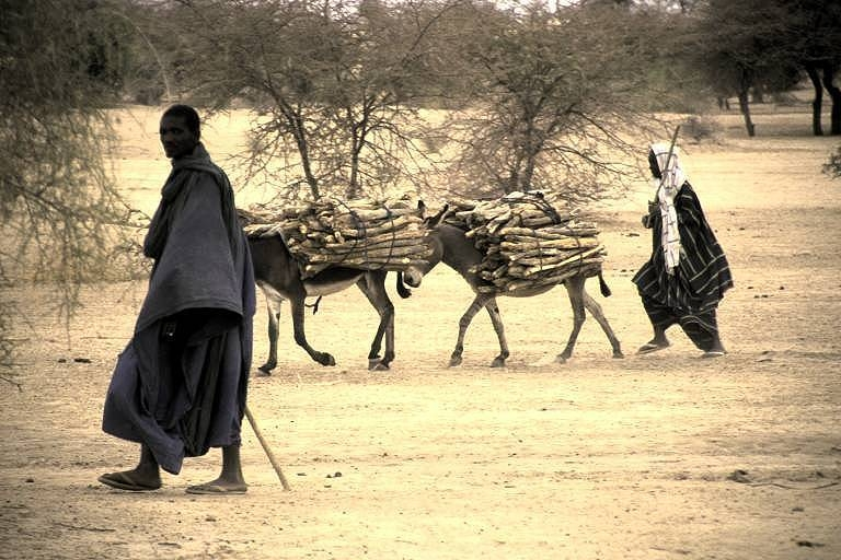 Two traders transporting fuelwood by donkey across Sahei Desert north of Douentza in Mali. Wood is a common fuel in many developing countries. Often people must travel long distances to collect shrinking supplies.